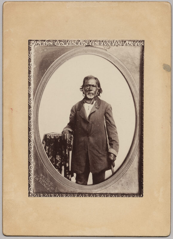 Chief Lope Inigo (Ynigo) (1781-1864) Ohlone Indian at Mission Santa Clara